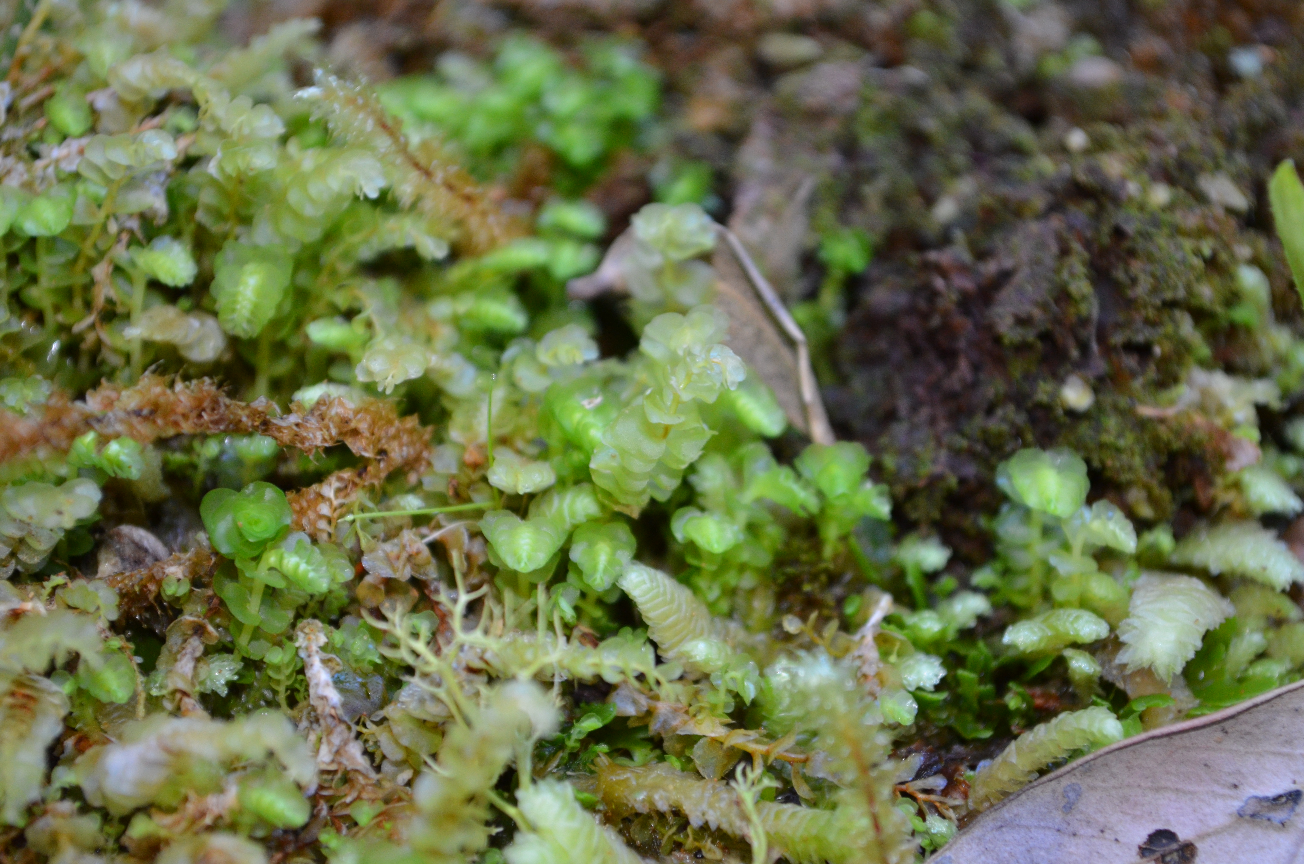 Acrobolbus pseudosaccatus (Grolle) Briscoe (= Tylimanthus pseudosaccatus Grolle), spotted in Mt. Field